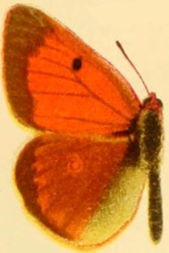 Plate from The Macrolepidoptera of the World. Vol. 1: Colias heos